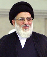 Mahmoud Hashemi Shahroudi